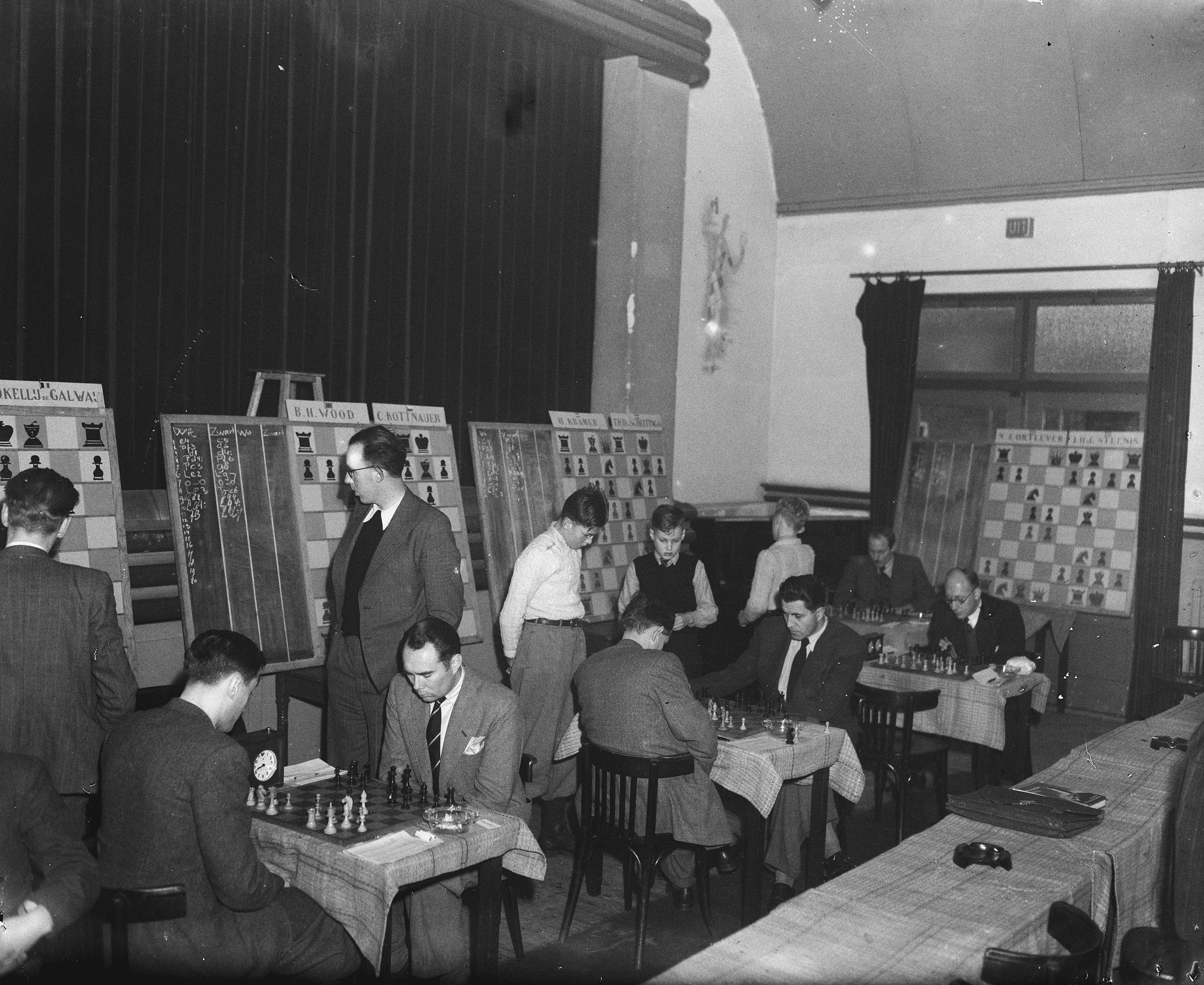 Hoogovens Tournament 1948. Sitting, left to right: Lodewijk Prins, Albéric O'Kelly de Galway, Baruch Wood, Čeněk Kottnauer, empty chair, Theo van Scheltinga. Sitting in the back left: Henk van Steenis.